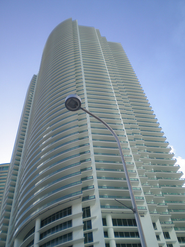 View of 900 Biscayne Bay from street